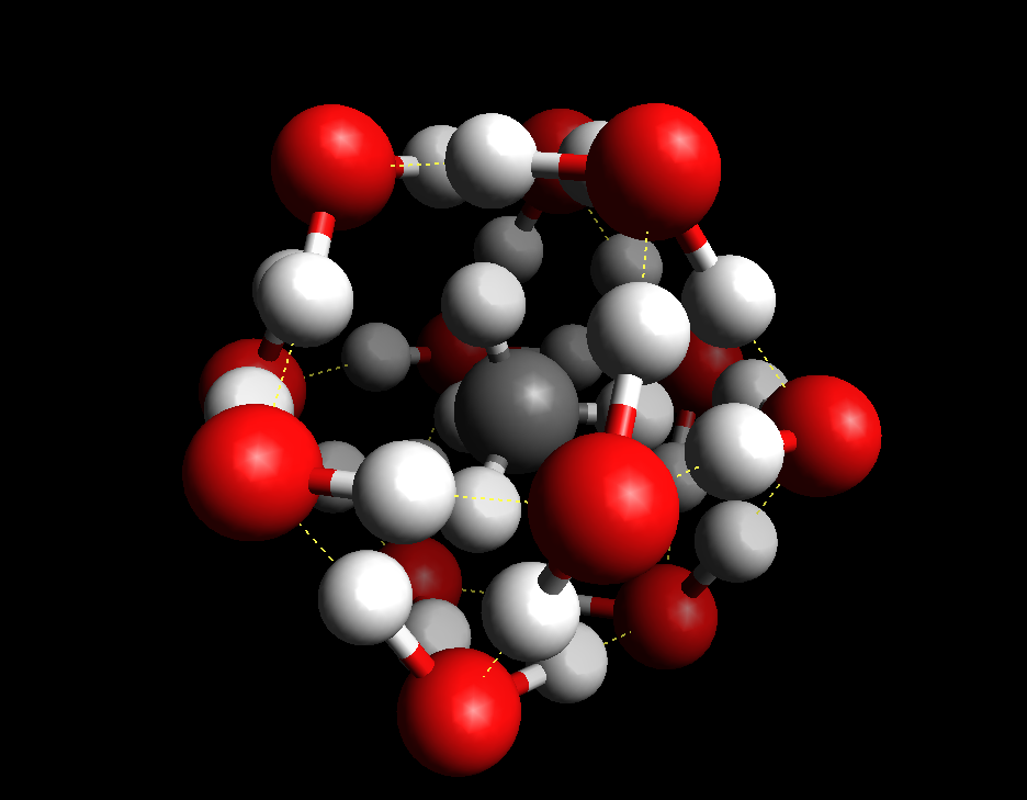 Methane clathrate, also called methane hydrate, hydromethane, methane ice, "fire ice" and natural gas hydrate.......see 中文 Description